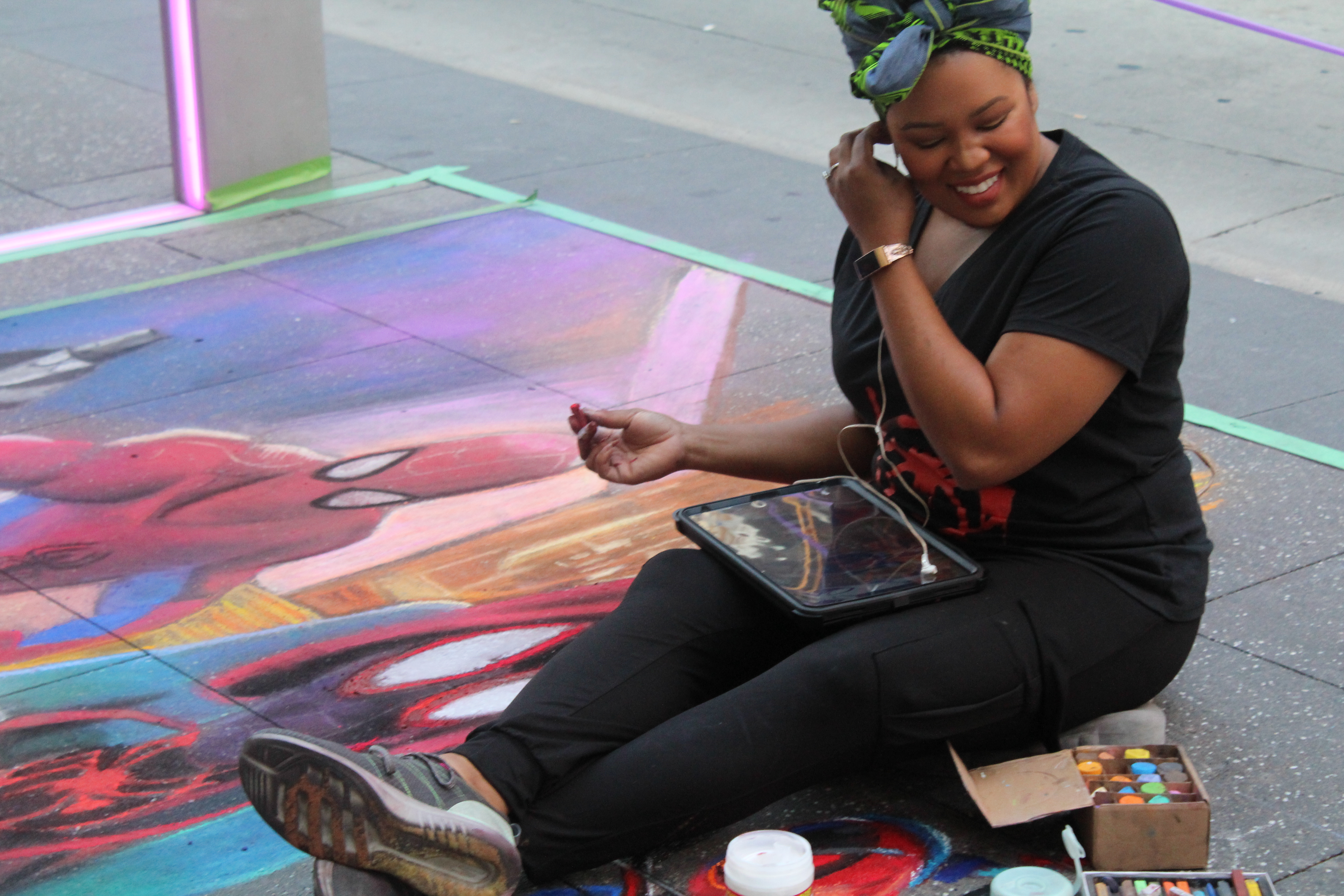 Amanda Harris of California at the Minneapolis Street Art Festival, Nicollet Mall, Minneapolis